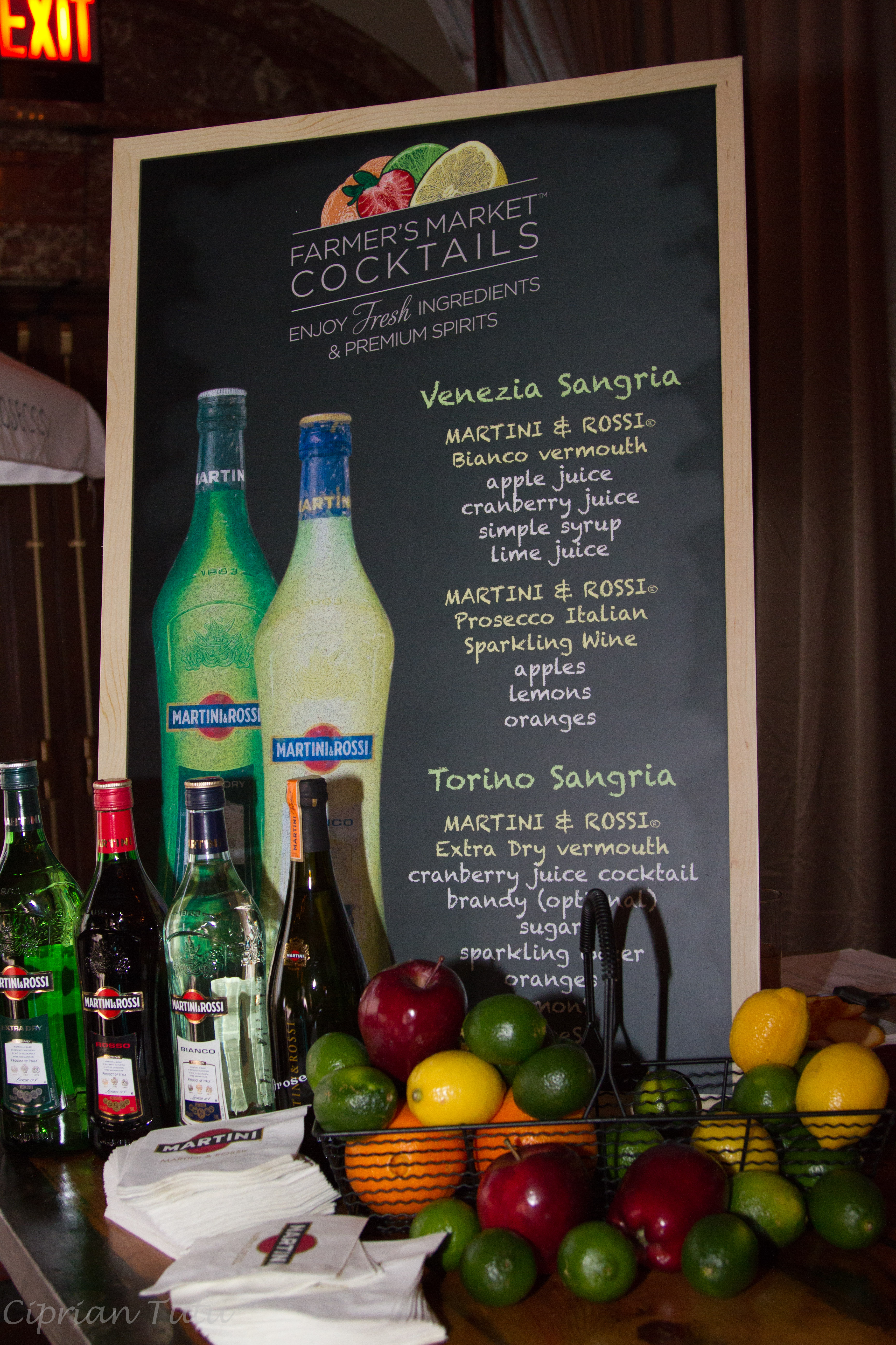 Martini at Manhattan